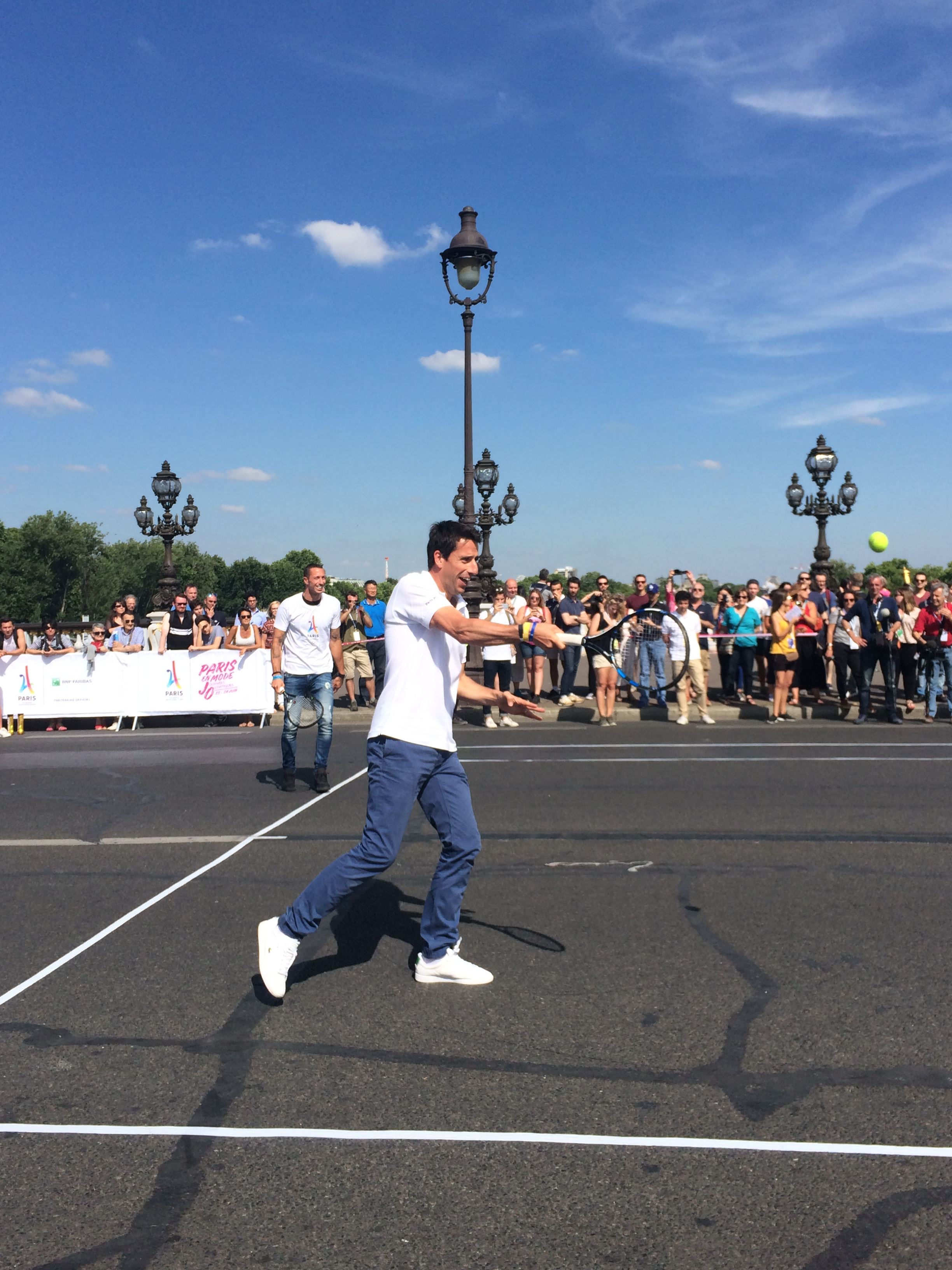 Picture of Tony Estanguet playing tennis during Olympic Days in Paris.